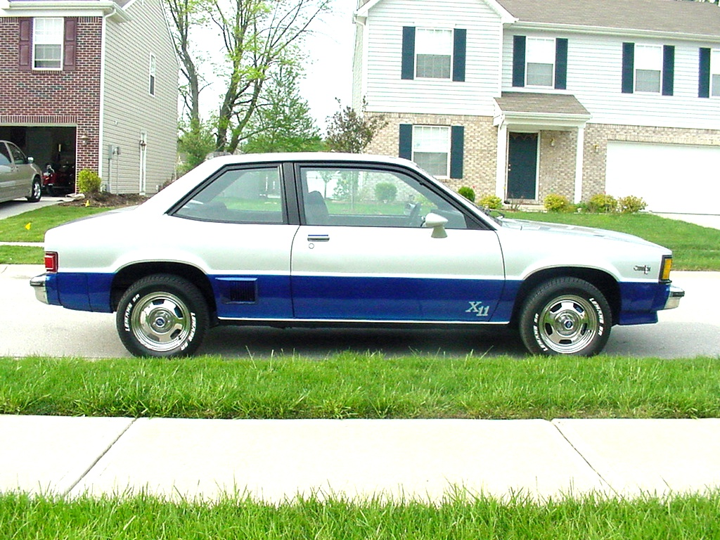 1980 Chevrolet Citation X11